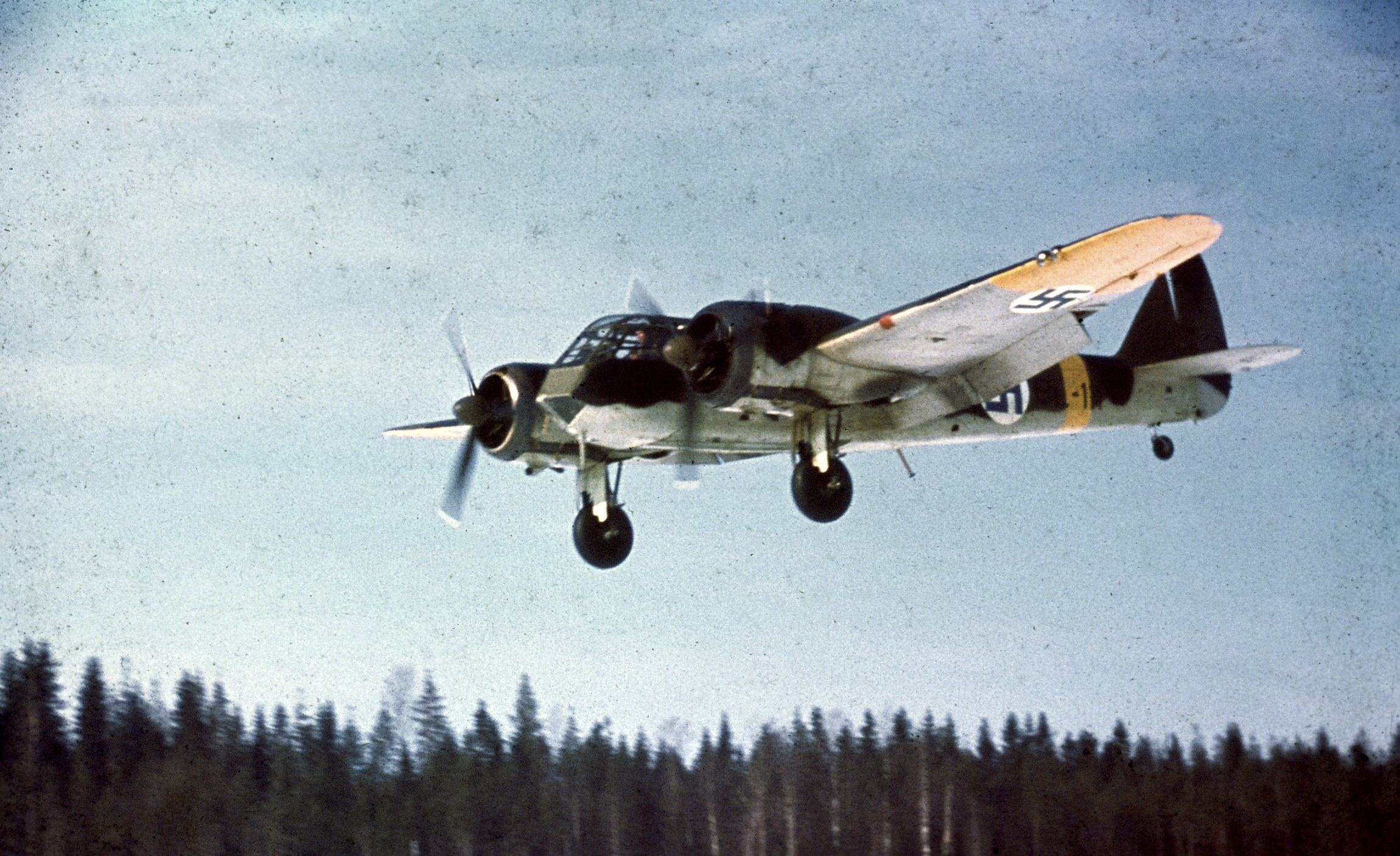 Bristol Blenheim landing on Luonetjärvi airfield (now Jyväskylä Airport).